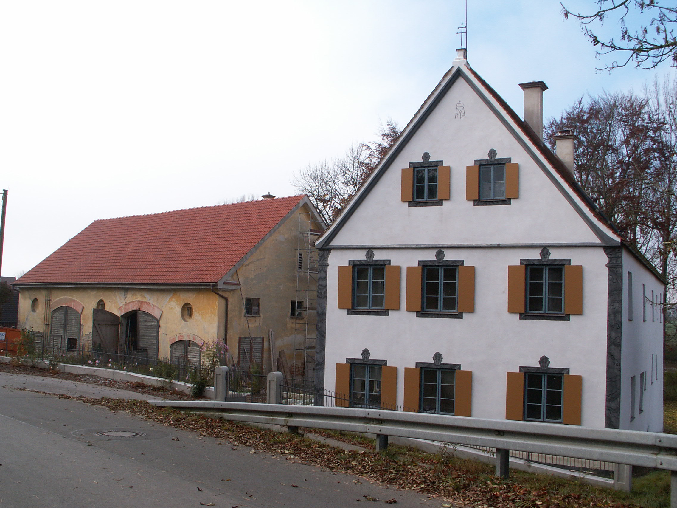 Pfarrhof in Großkitzighofen während der Restaurierung, Oktober 2005